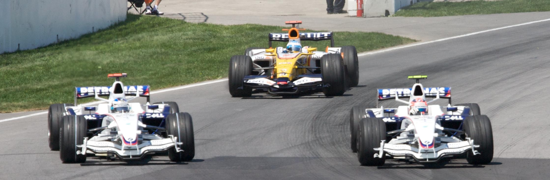 Robert Kubica passes BMW Sauber team-mate Nick Heidfeld during the 2008 Canadian Grand Prix, with Fernando Alonso following.